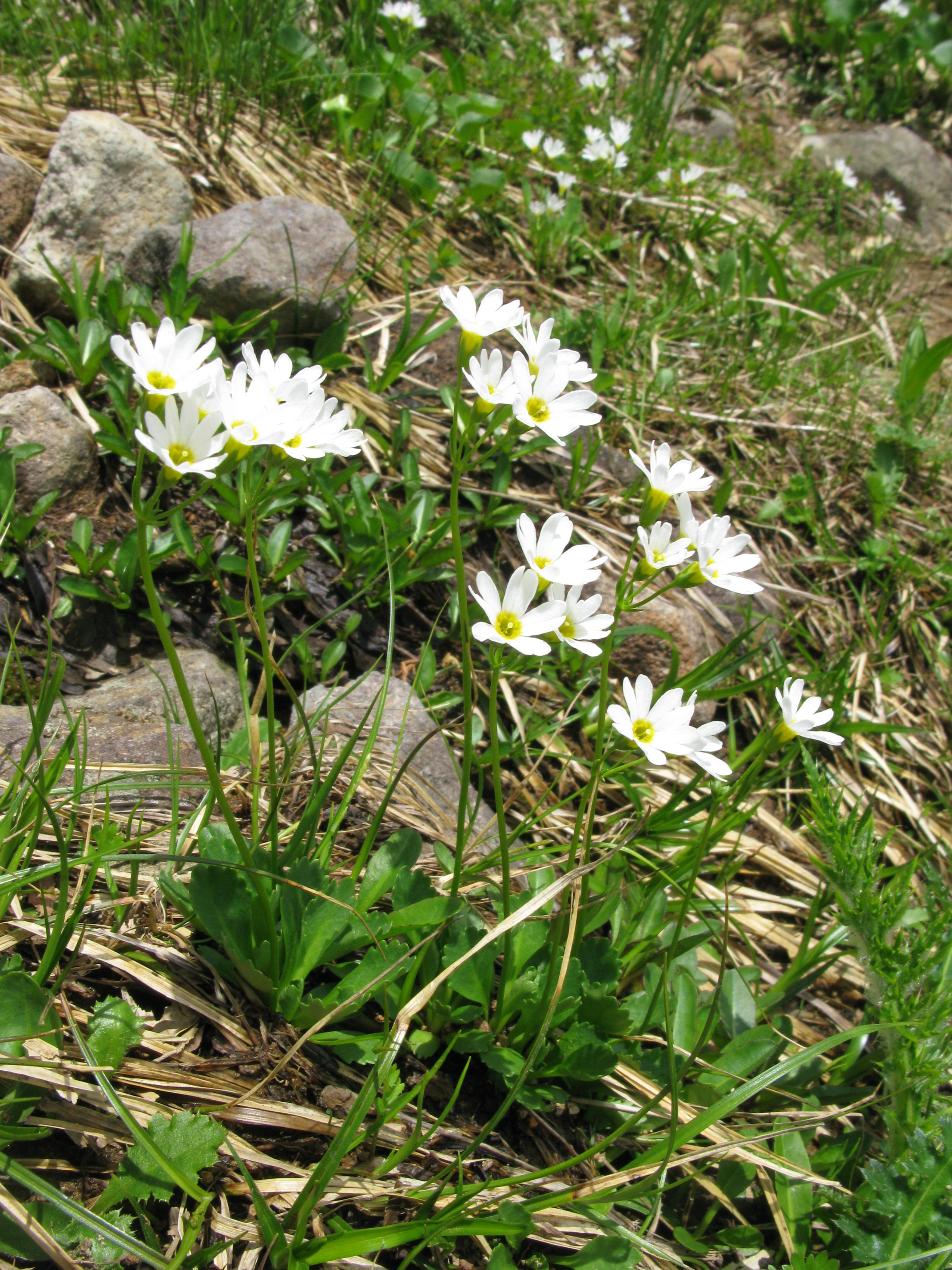 Primula nipponica, Mt. Nishiazuma-yama, Fukushima pref., Japan